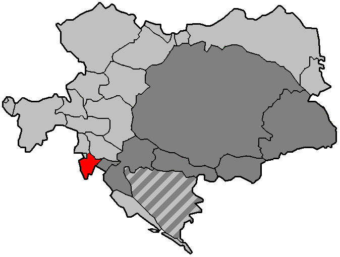 Map of Austria-Hungary